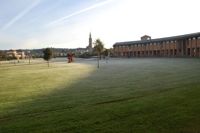 Escuela Politécnica de Ingeniería de Gijón